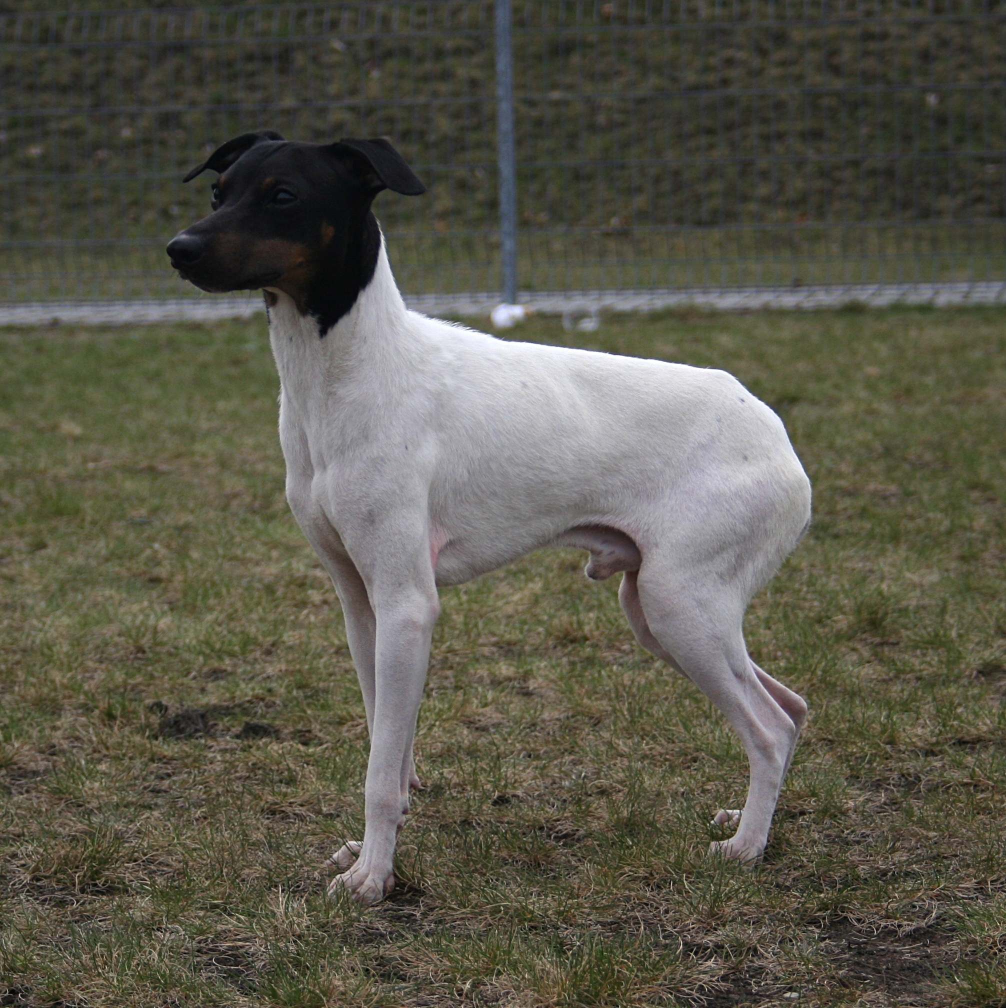 At photo Amakakeru-Meiji White Oleander - Japanese Terrier on dogs show in Konopiska, Poland. The owner is Paweł Gąsiorski.